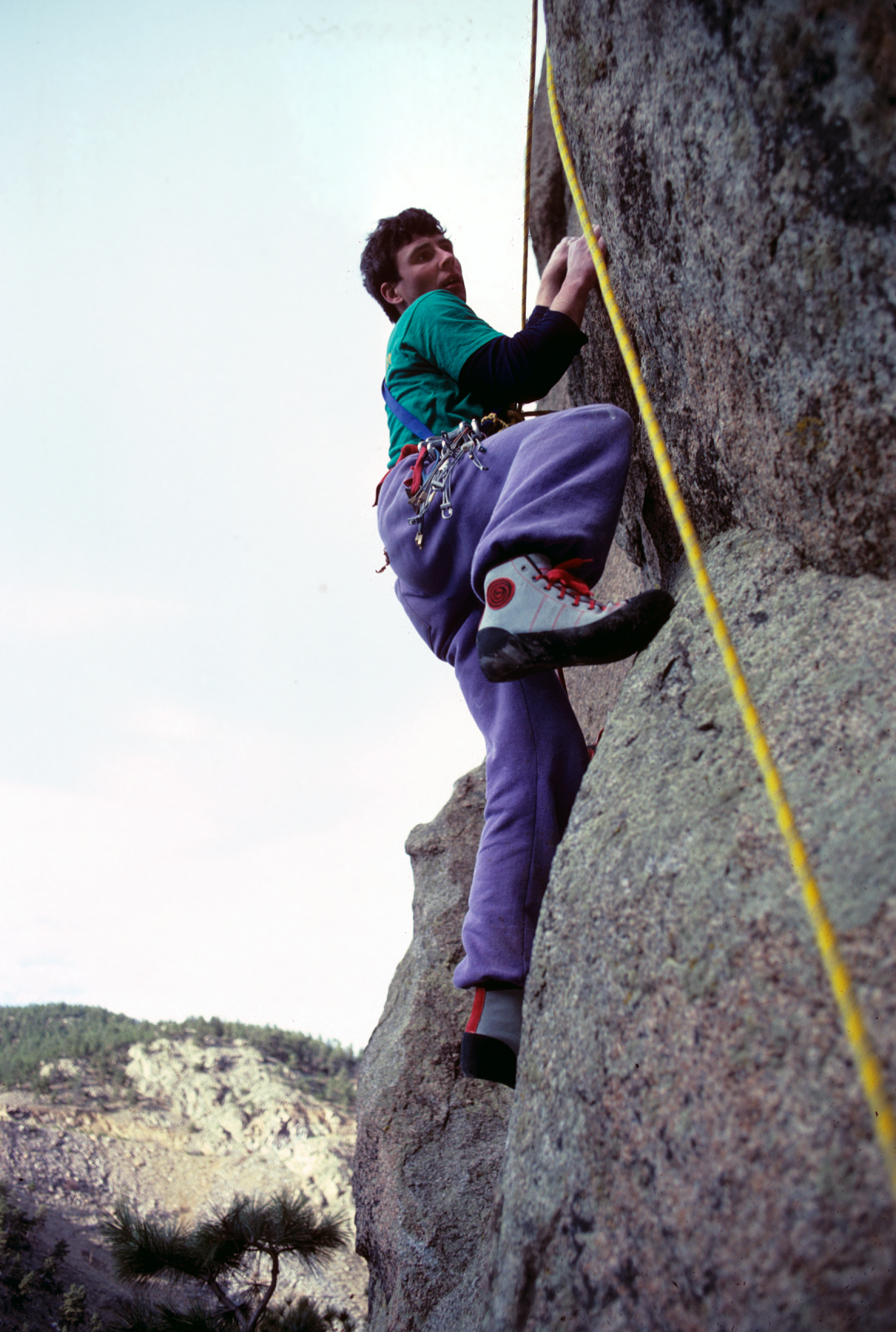 Charlie Fowler leads the climb "Nothing to Fear," in Boulder Canyon, 1984. Photo by Pat Ament.